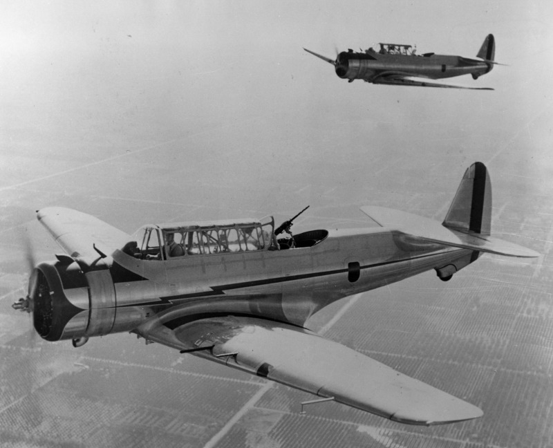 PictionID:45406633 - Catalog:16_006807 - Title:Vultee V-11GB Brazil - Filename:16_006807.TIF - Image from the Ray Wagner Collection. Ray Wagner was Archivist at the San Diego Air and Space Museum for several years and is an author of several books on aviation --- ---Please Tag these images so that the information can be permanently stored with the digital file.---Repository: San Diego Air and Space Museum